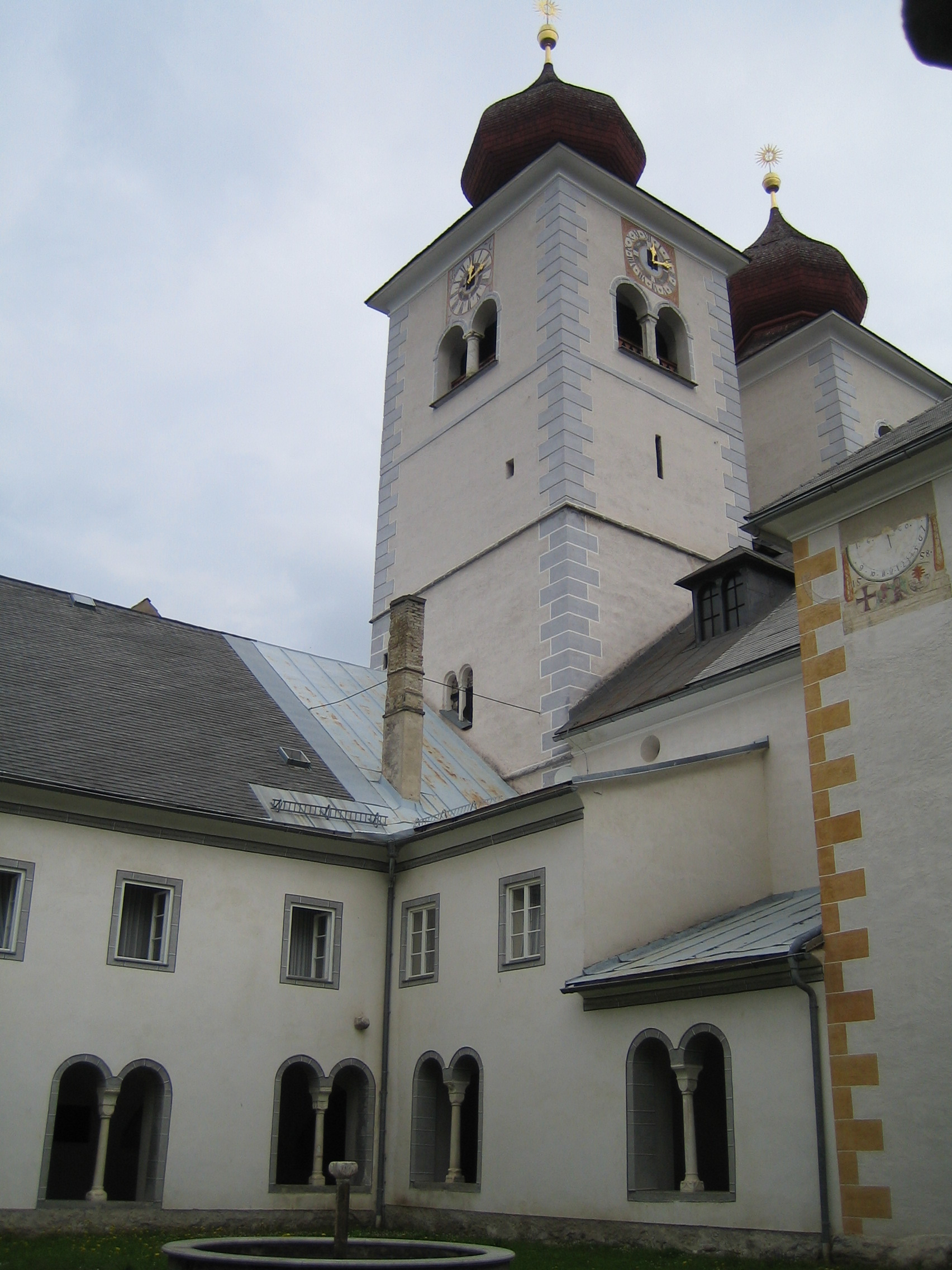 Millstatt monastery (Austria) cloister's yard and the spires of the collegiate church.